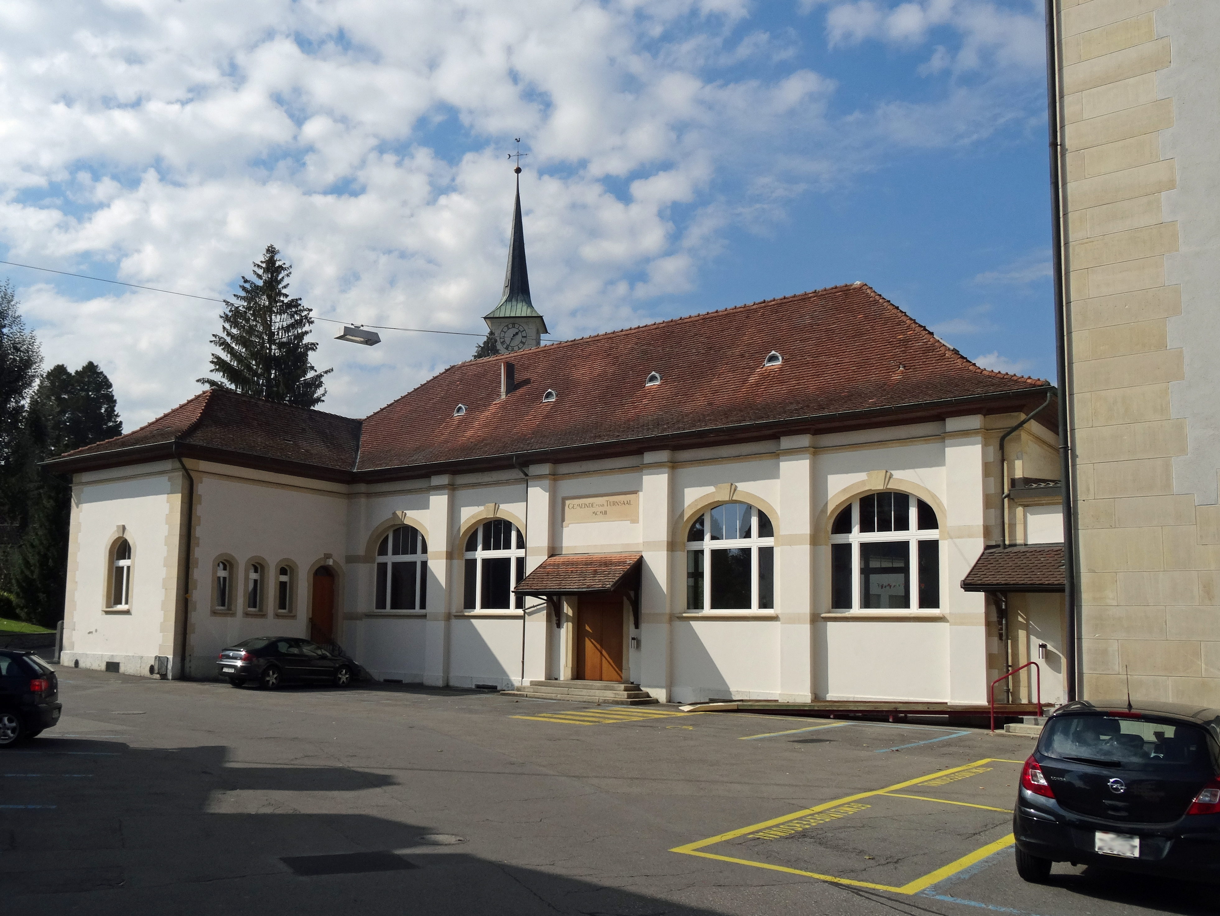 Gemeindesaal in Menziken, Switzerland.